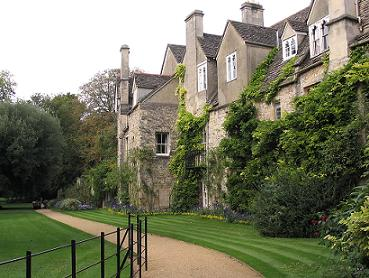 cottages worcester college oxford